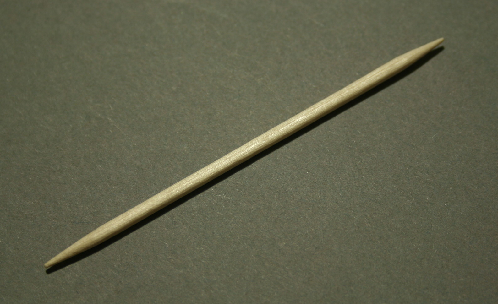 A toothpick